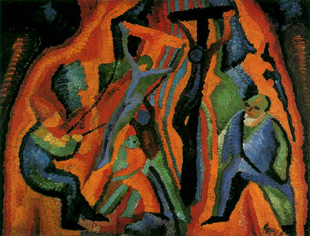 Kreuzaufrichtung